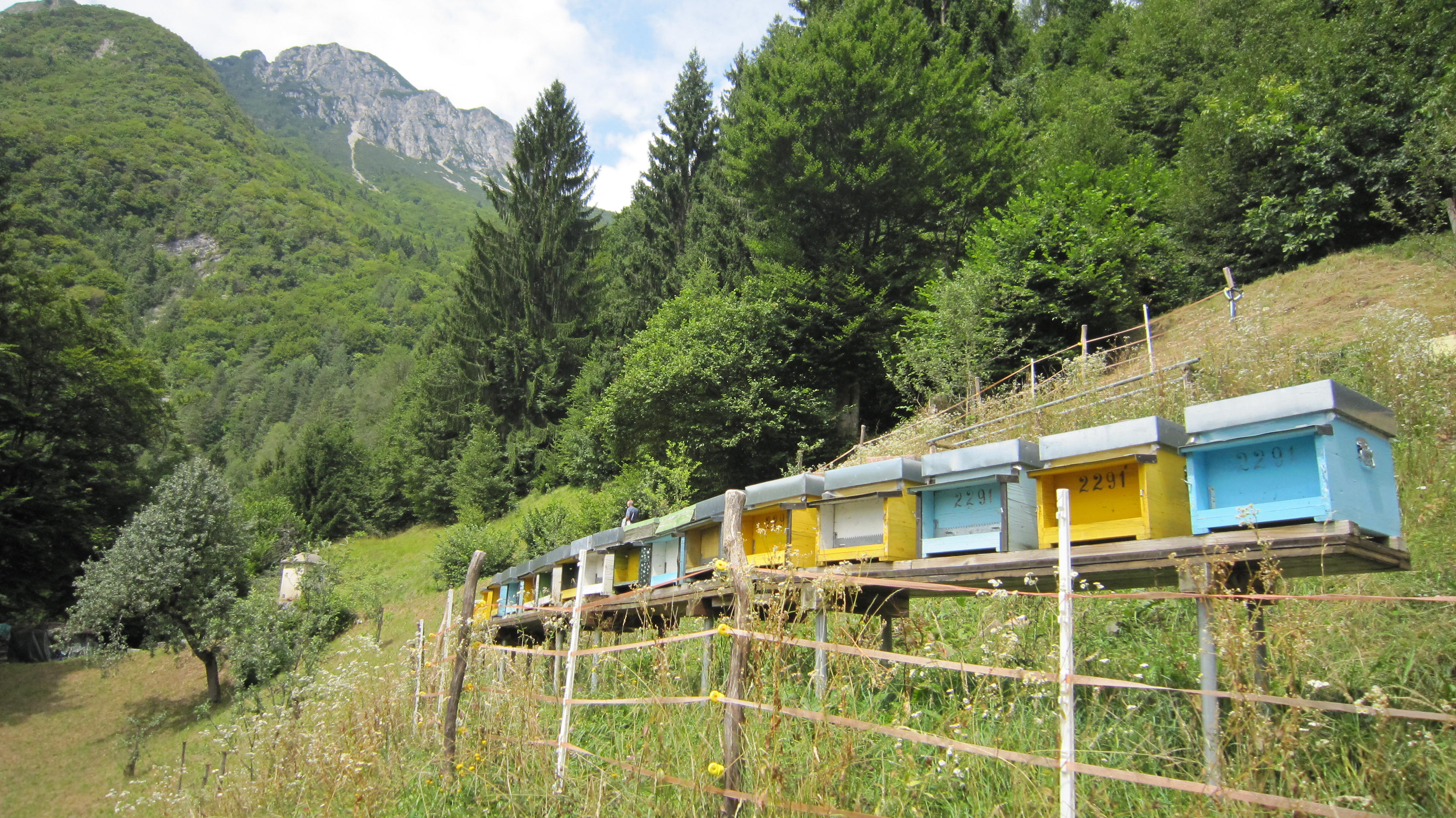 alveare trelli